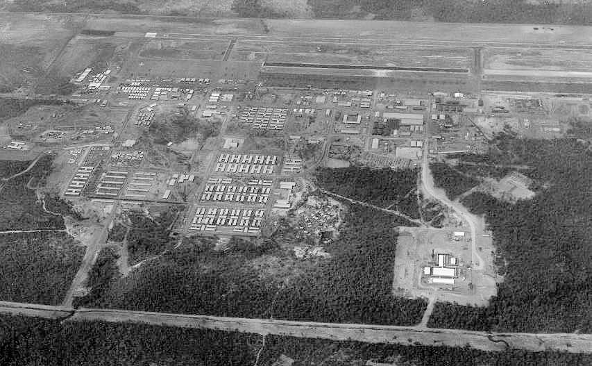 Oblique aerial photo of Nakhon Phanom Royal Thai Air Force Base, looking to the Southwest - taken during Southeast Asian War of the 1960s.